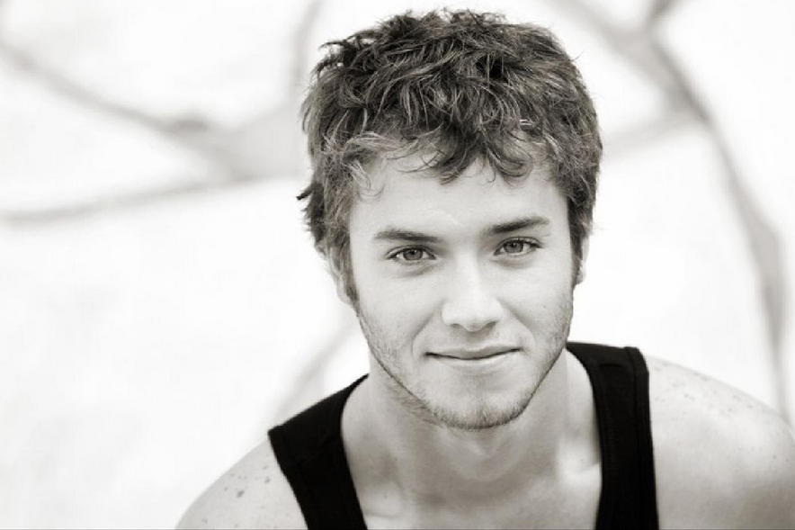 Actor